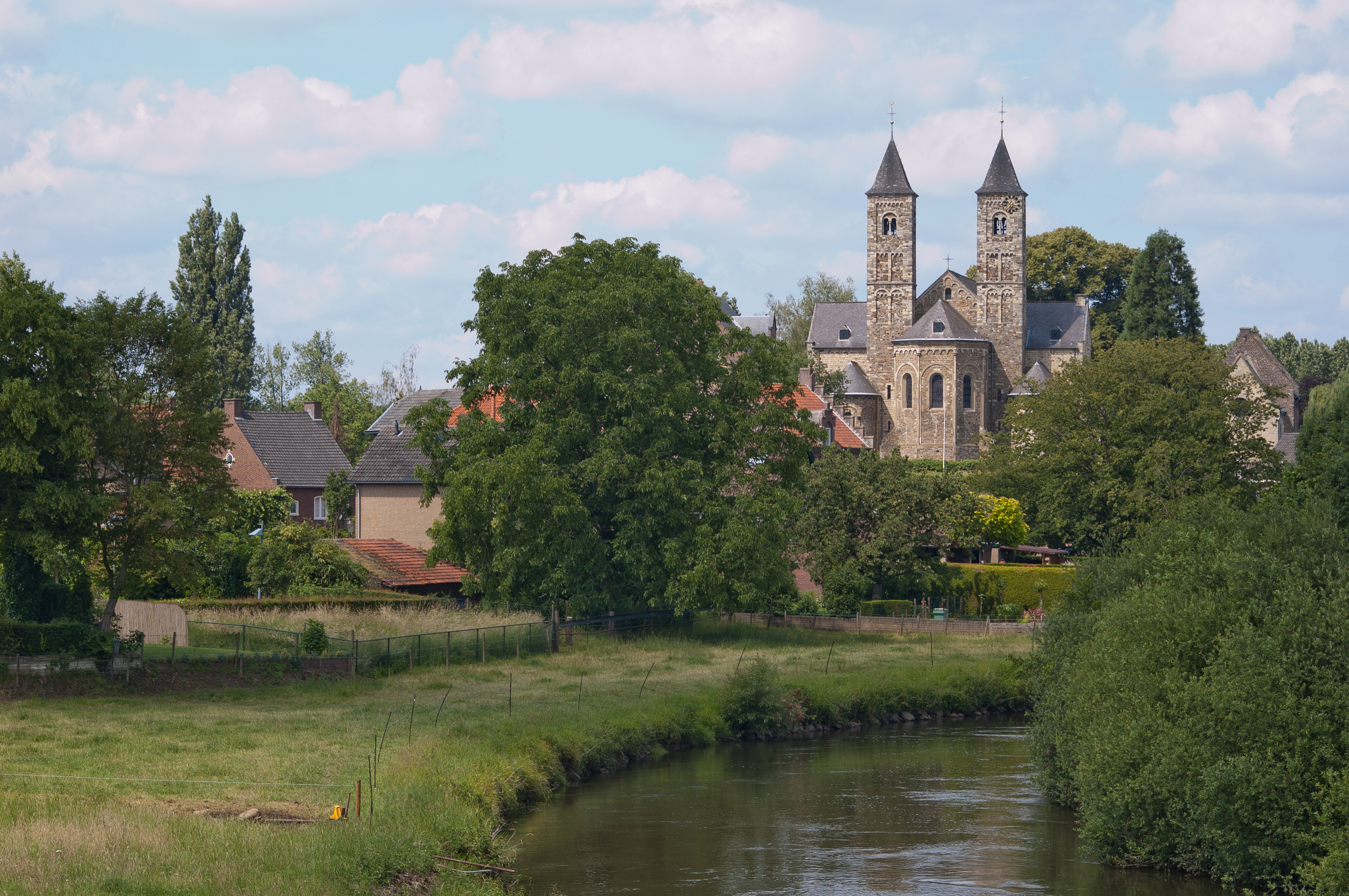 St. Odilienberg in the Netherlands. View from the bridge over the Roer on the river himself towards the church